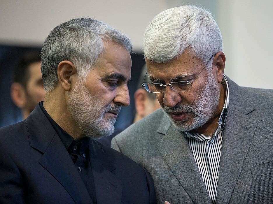 Abu Mahdi al-Muhandis at the funeral of Qasem Soleimani's father.